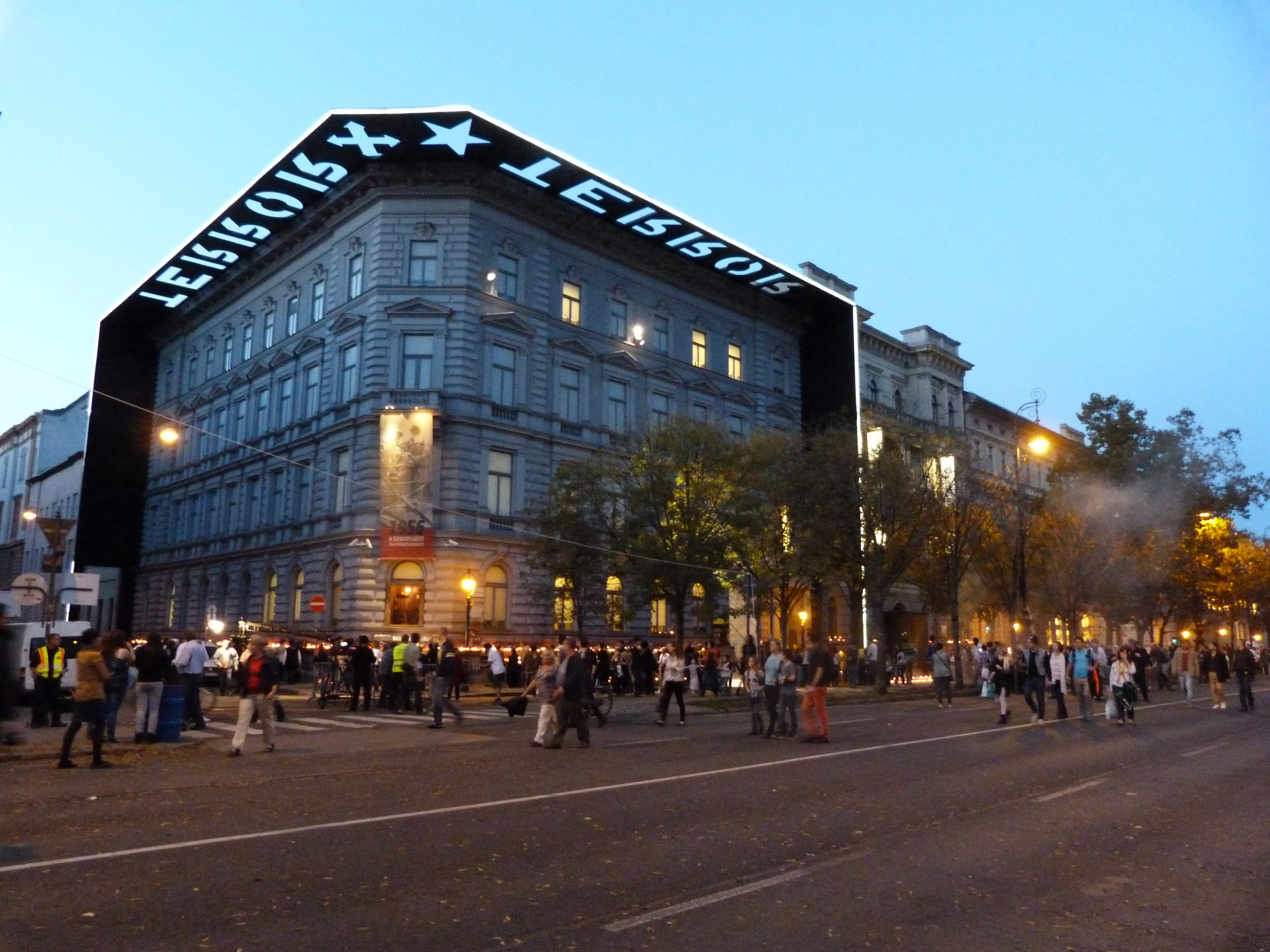 Live on the 23rd of October, 2013. Budapest downtown. The 3rd Peace March for Hungary. Budapest Andrássy út – körút – Oktogon – Andrássy út (Terror Háza) – Körönd – Hősök tere. Pro-goverment demonstration. Sourches: Civil Összefogás Fórum Sajtótájékoztató a 2013. október 23-ai Békemenetről Több százezren a Hősök terén ©© Derzsi Elekes Andor, Budapest, 2013, You are authorised to use these photos and vids under Creative Commons – even for commercial, for profit purposes. Photos must be attributed to Derzsi Elekes Andor. All of the photos and vids in the Metapolisz DVD line are under Creative Commons and can be used even for commercial – for profit – purposes. Recommended Citation Derzsi Elekes Andor: Metapolisz DVD line